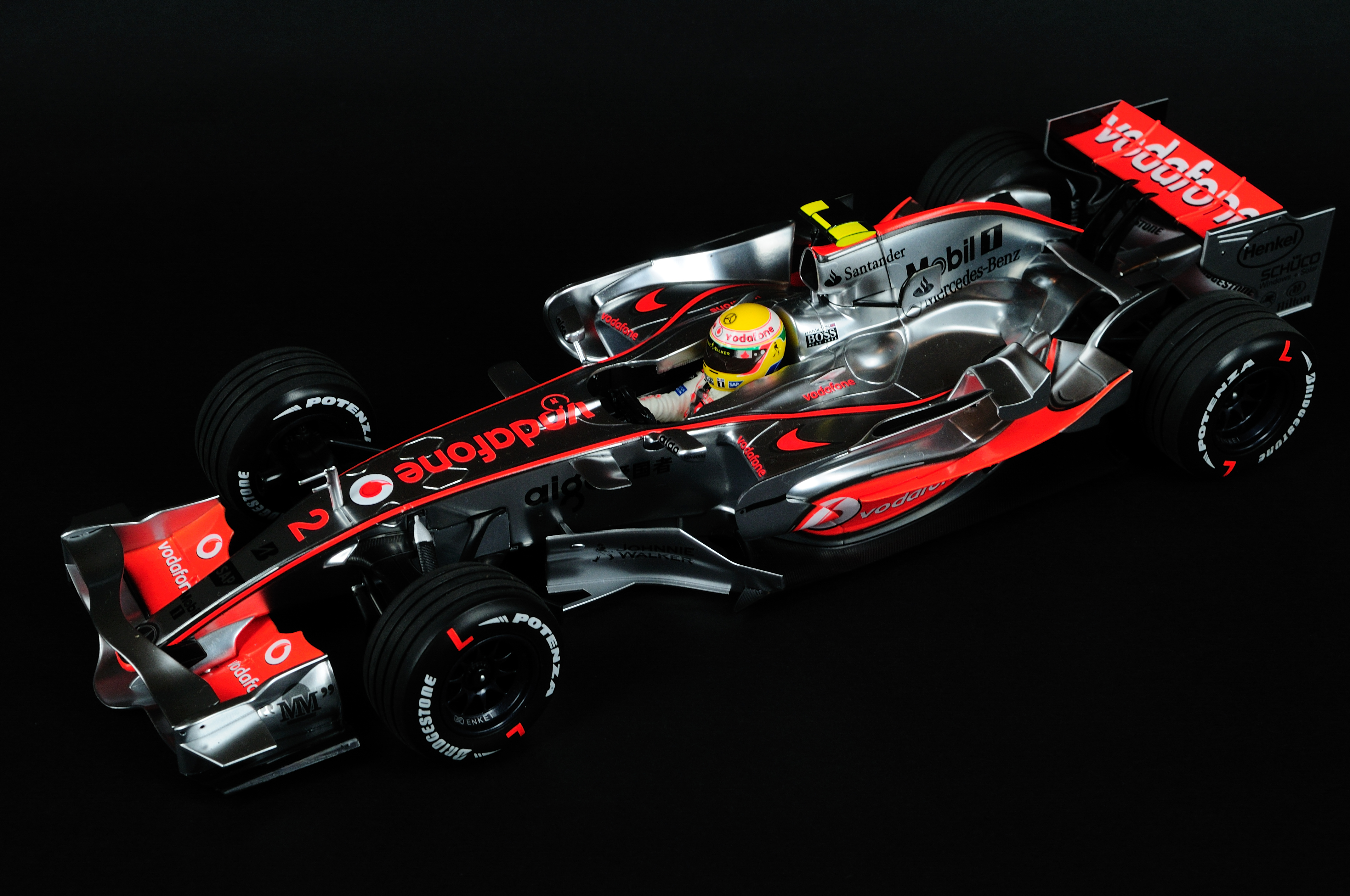 Lewis Hamilton 1st win, Canadian GP 2007 Montreal Minichamps 1:18